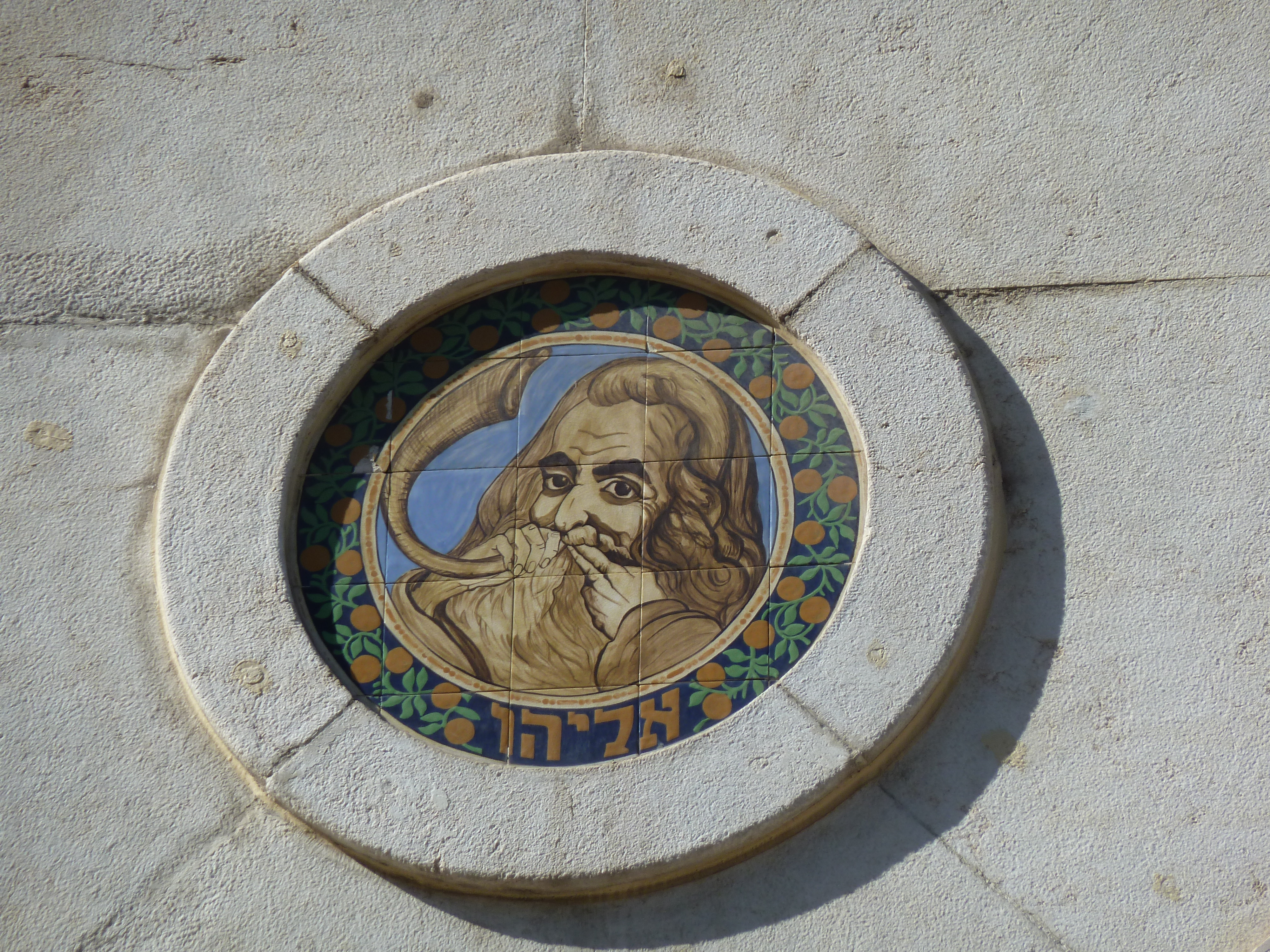 Ehad Haam street, Tel Aviv